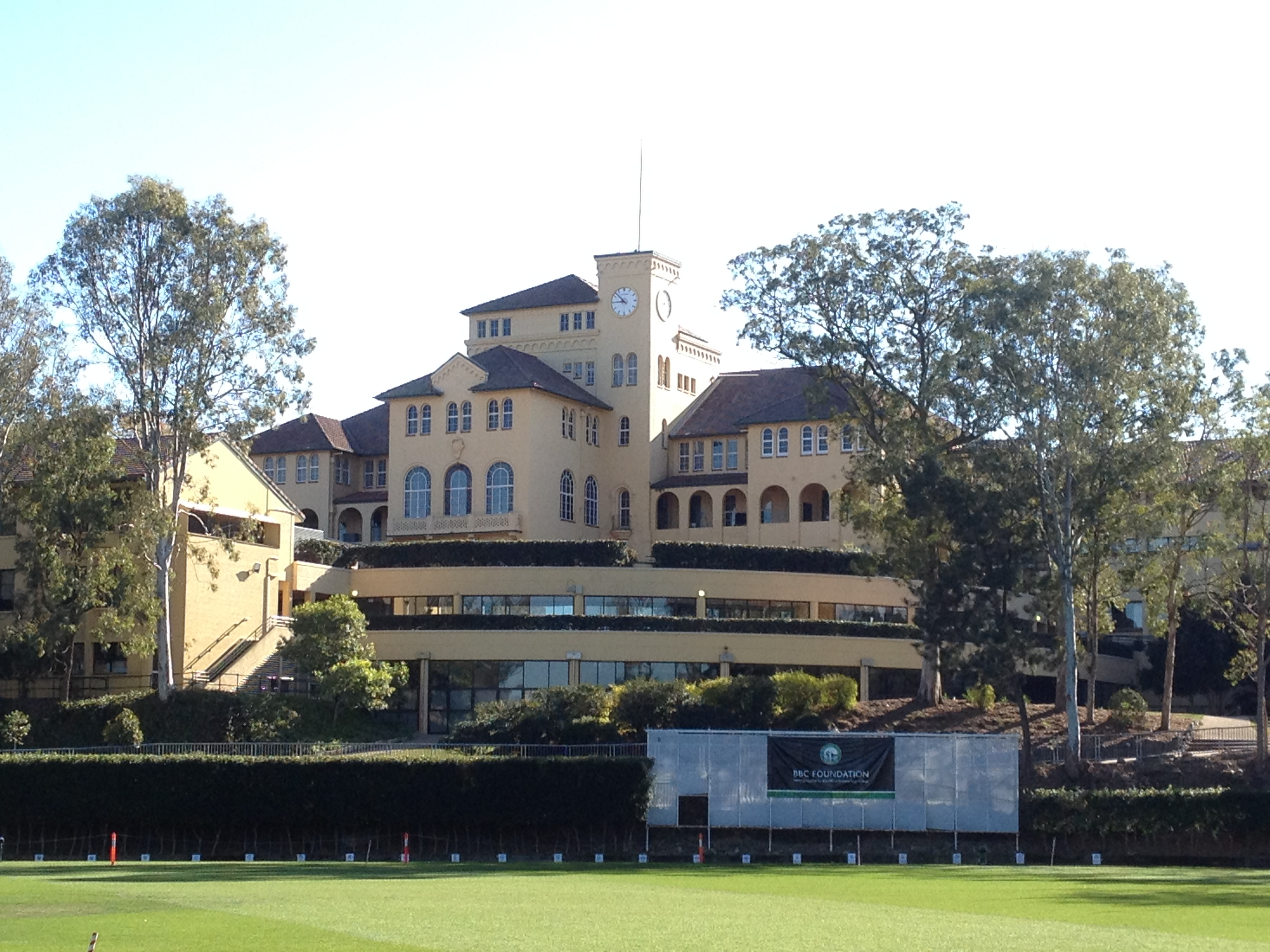 Main Building Brisbane Boys' College, Toowong, Queensland, seen across main oval